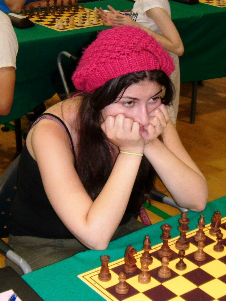 Tatev Abrahamyan playing in the Najdorf Memorial in Warsaw (Poland)